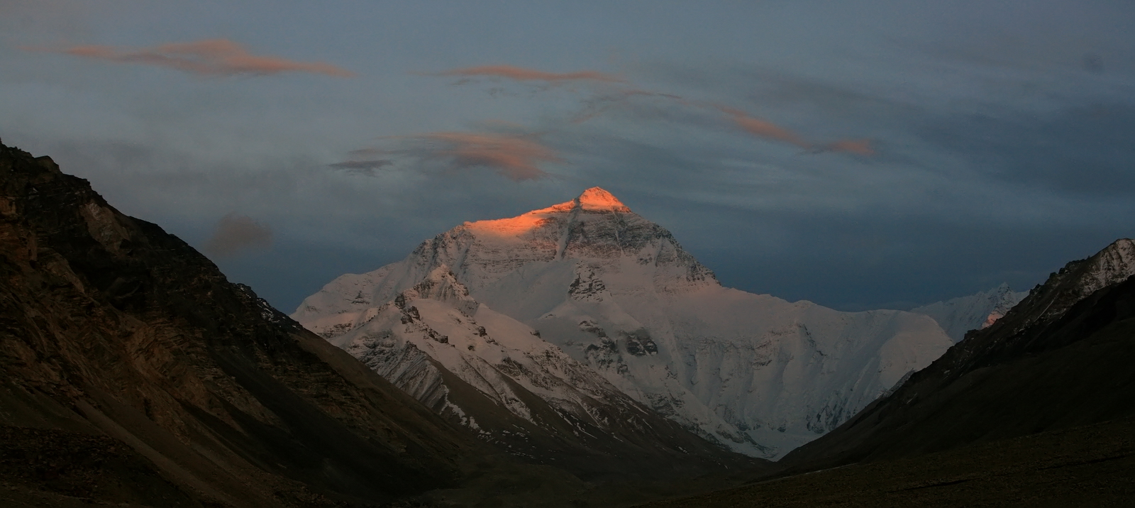 The last rays of sunlight on Mount Everest on May 5, 2007.